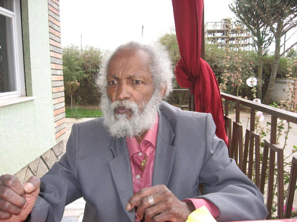 Sebhat Gebre-Egziabher on one of his television interviews.